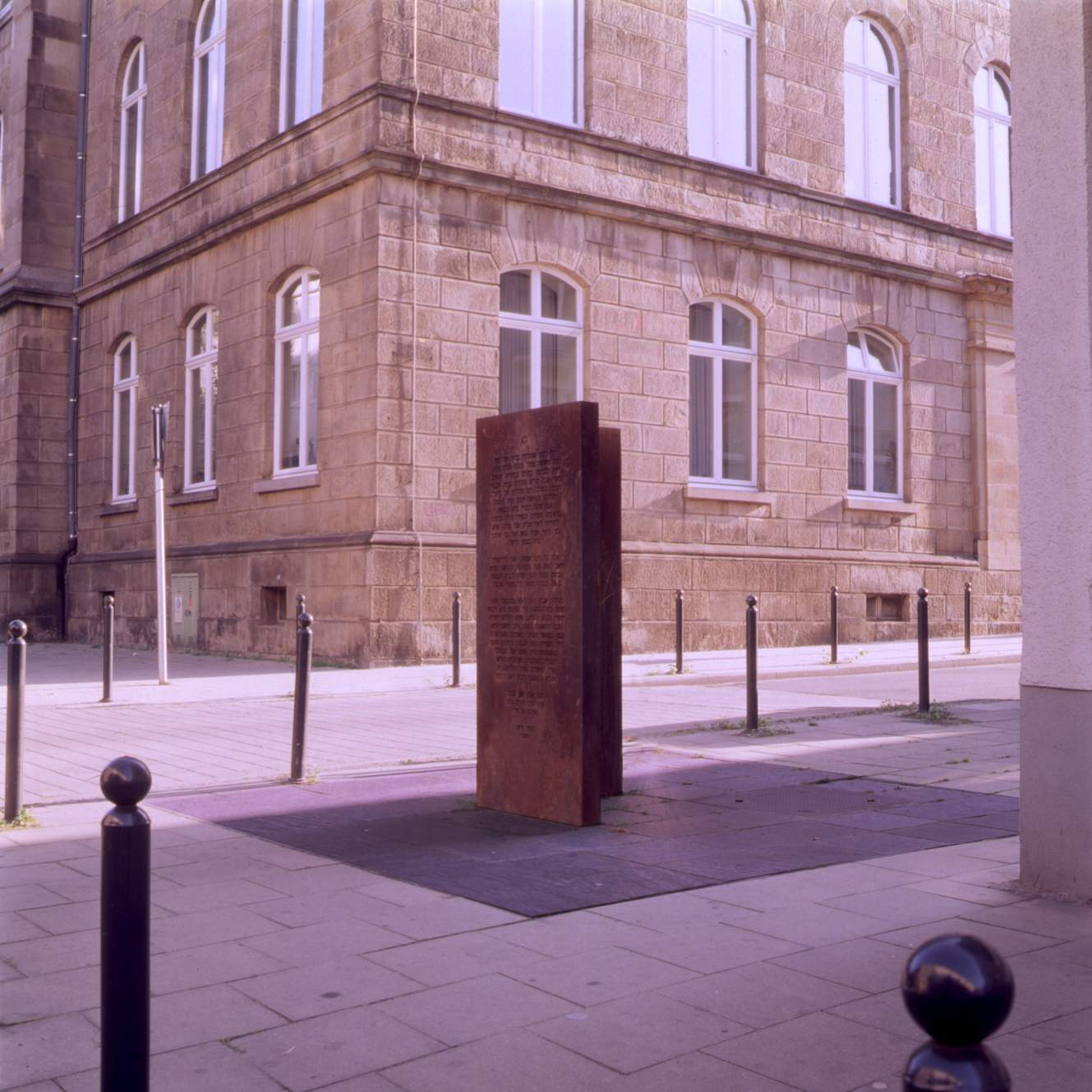 memorial for the synagoge in Witten